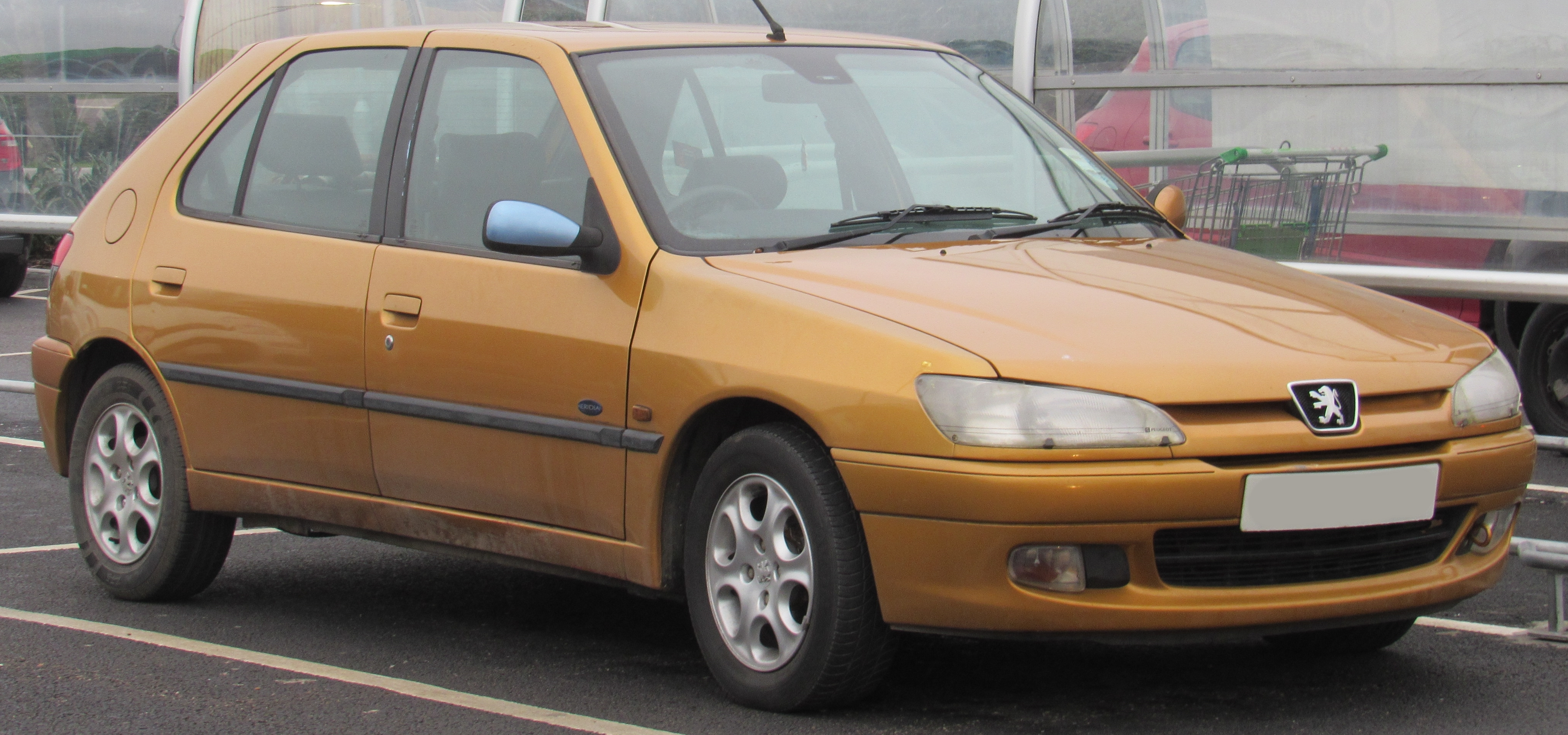 1999 Peugeot 306 Meridian 1.6 Front Taken in Leamington Spa